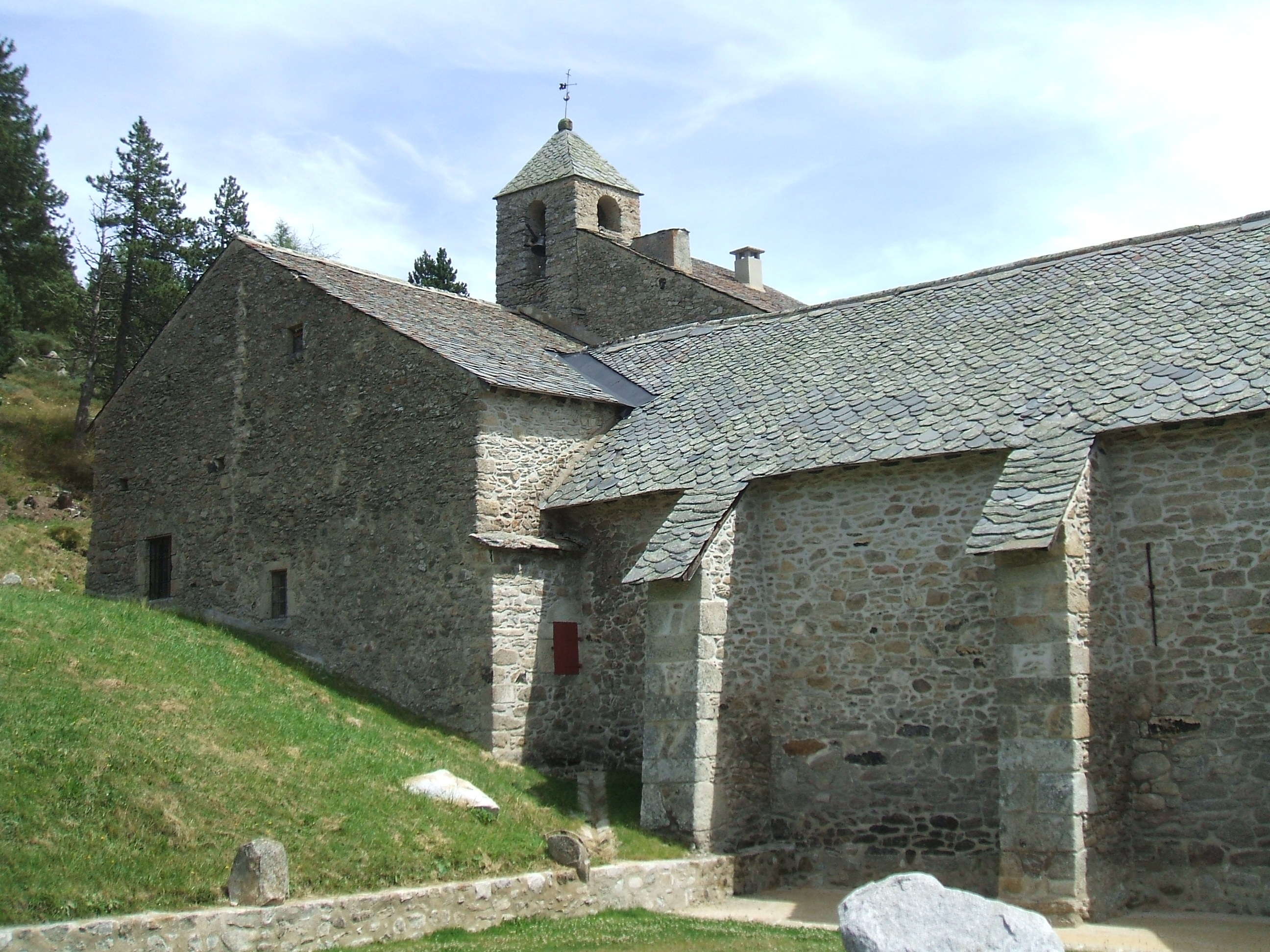 Font-Romeu-Odeillo-Via (Pyrénées-Orientales département, Languedoc-Roussillon région, France) : hermitage of Notre-Dame. Chapel northern wall.